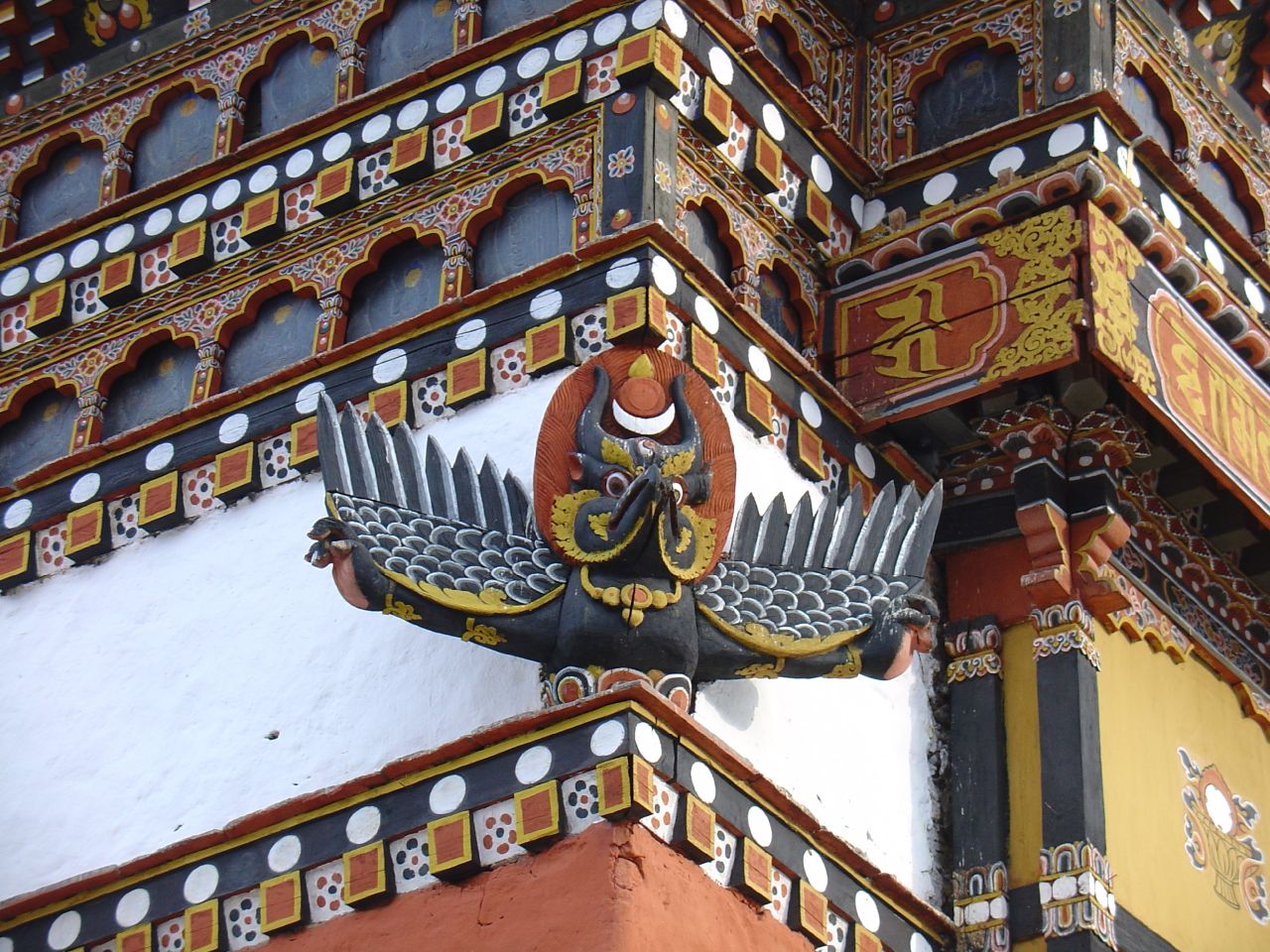 Guru Da Trashi Chhoe Dzong